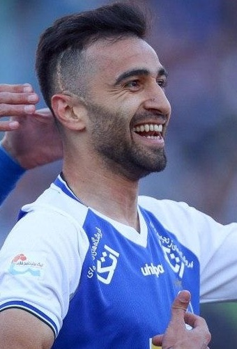 Tehran derby